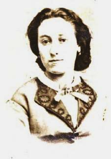 Portrait of the Occitan writer Maria Antonieta Rivièra